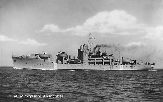 Postcard picture of the Swedish minelayer HMS Älvsnabben (M01).